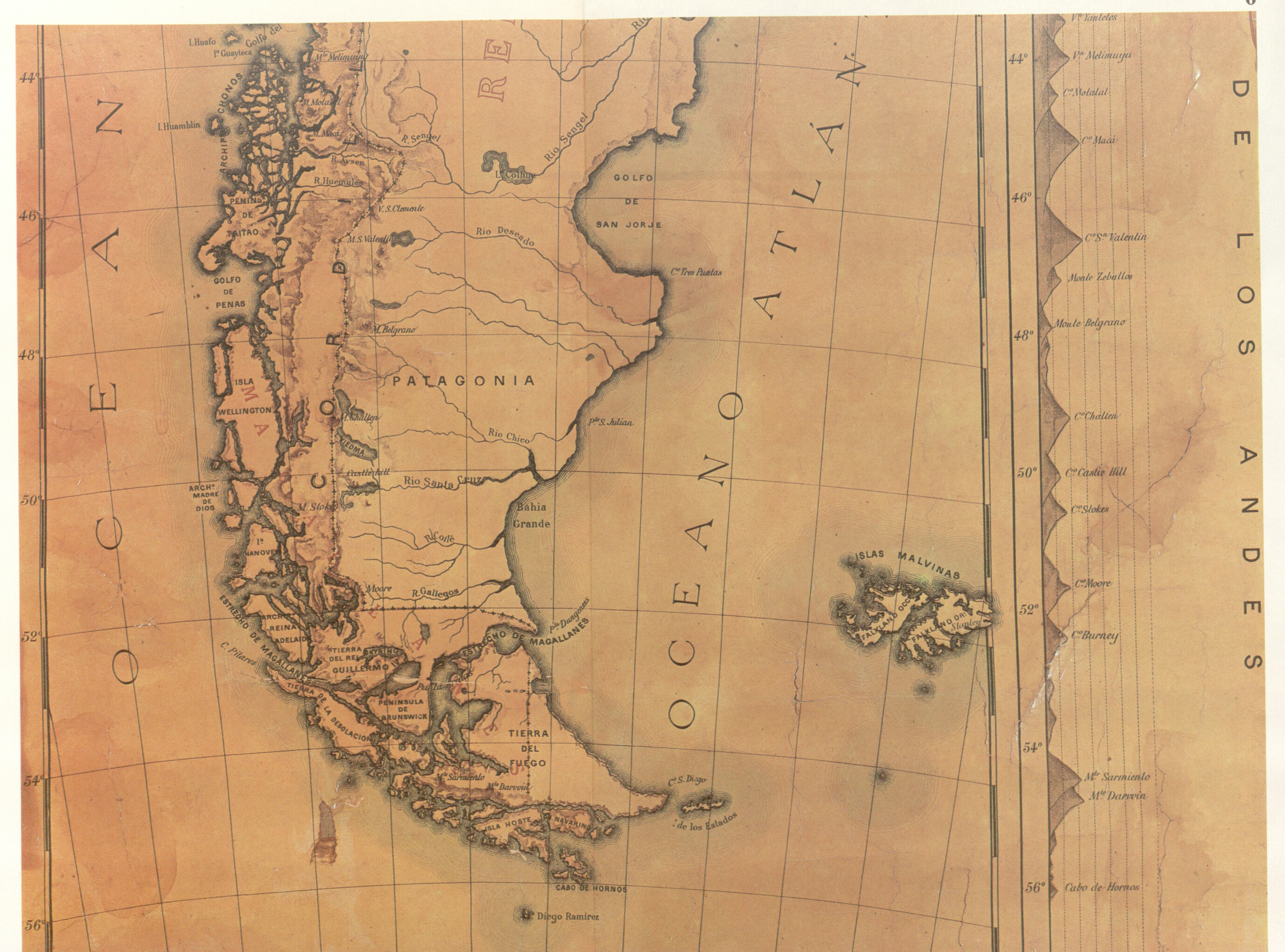 "This official map of Chile, partially reproduced here, 'was drawn up on the orders of the Chilean Government for use in primary schools in the Republic and with a view to the most recent data' by Alejandro Bertrand in 1884. The author, an engineer, was member of the Boundary Commissions charged with marking out the Chilean-Argentine Frontier. At the time the map was approved by the Chilean Hydrographic Office. On the map all the islands south of the Beagle Channel as far as Cape Horn are shown as being under Chilean sovereignty."